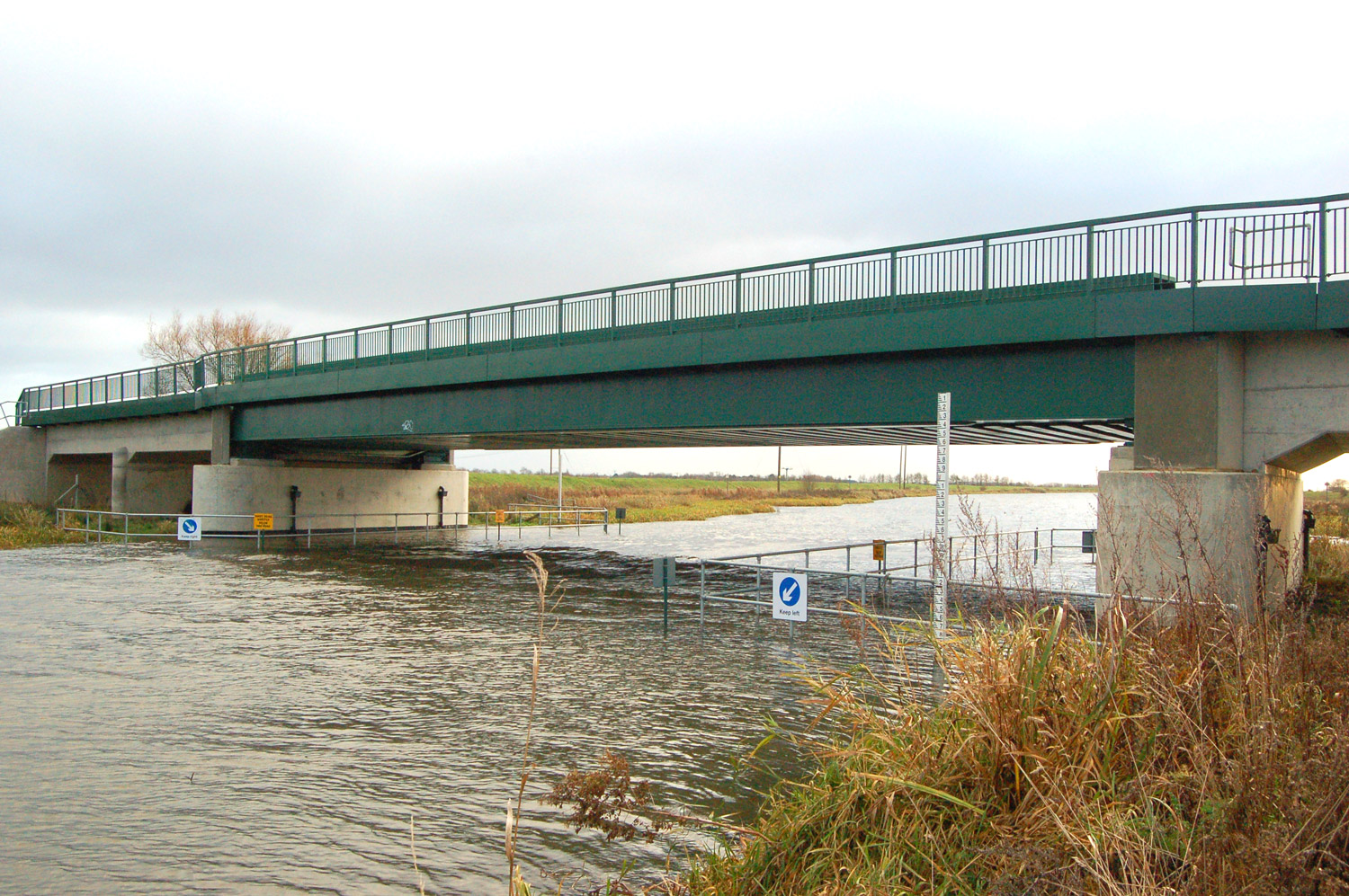 Hawk Bridge carrying the Ely to Newmarket single-track railway line over the River Great Ouse south of Ely, Cambridgeshire